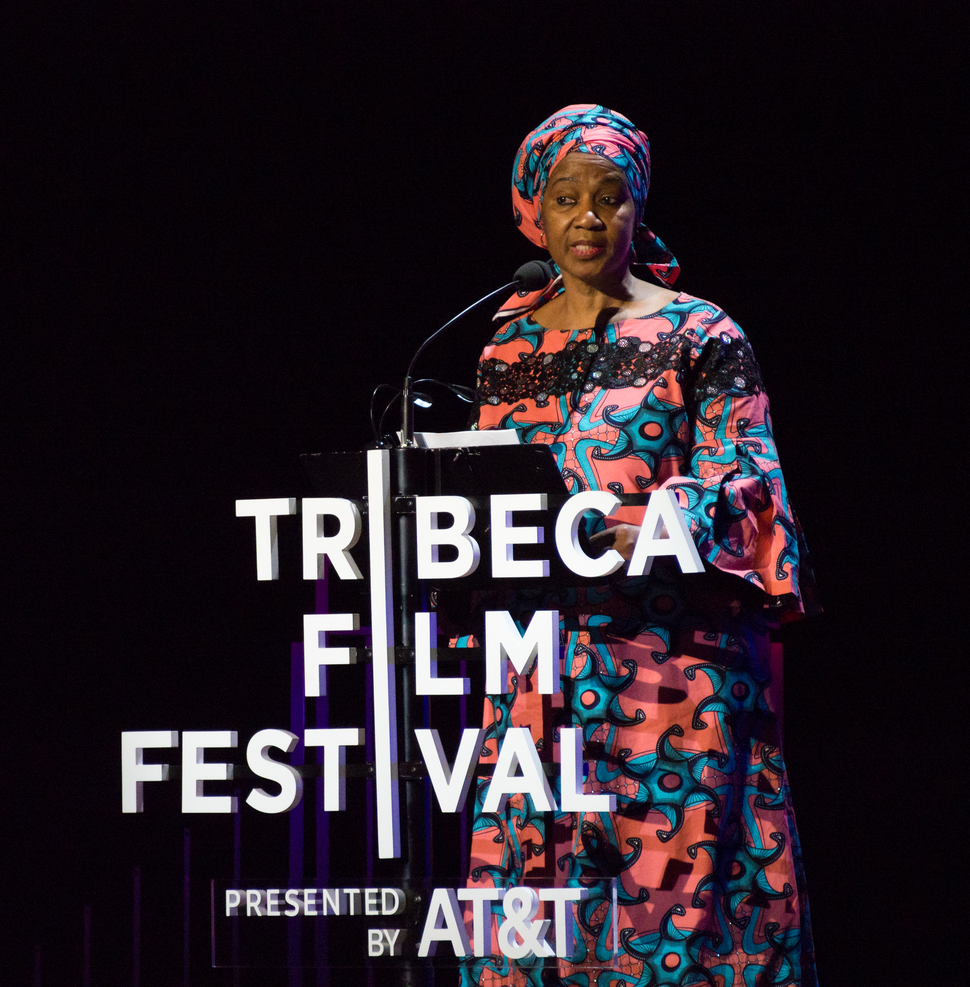 Phumzile Mlambo-Ngcuka at the Time's Up event at the 2018 Tribeca Film Festival (Tribeca Talks: Time's Up). A series of talks/performances about Time's Up/sexual harassment.